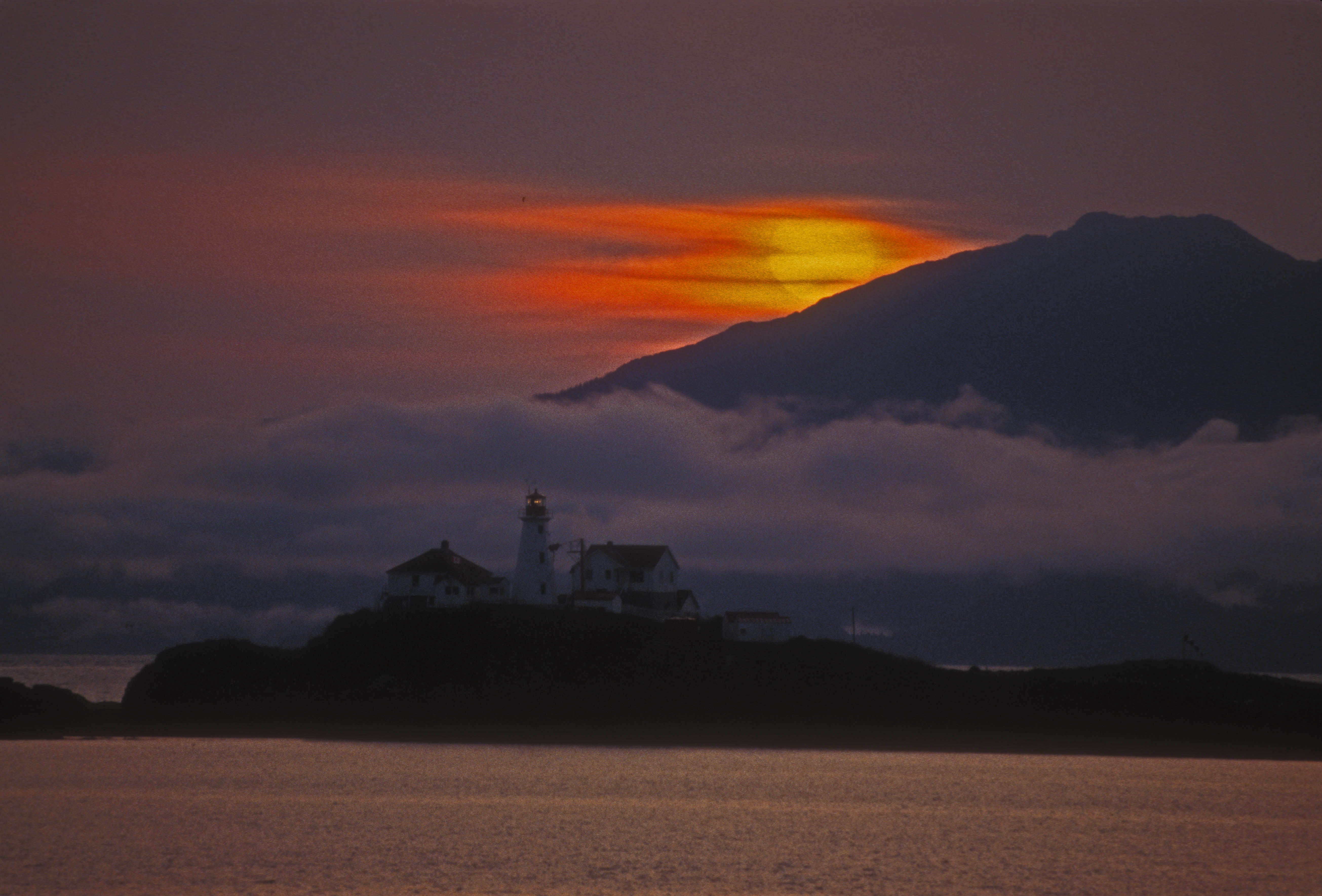 GREEN ISLAND LIGHTHOUSE - 1906; 25 MILES NORTHWEST OF PRINCE RUPERT IN CHATHAM SOUND - NOT FAR FROM ALASKAWIKIPEDIA HAS NO ARTICLE ON THIS LIGHTHOUSE